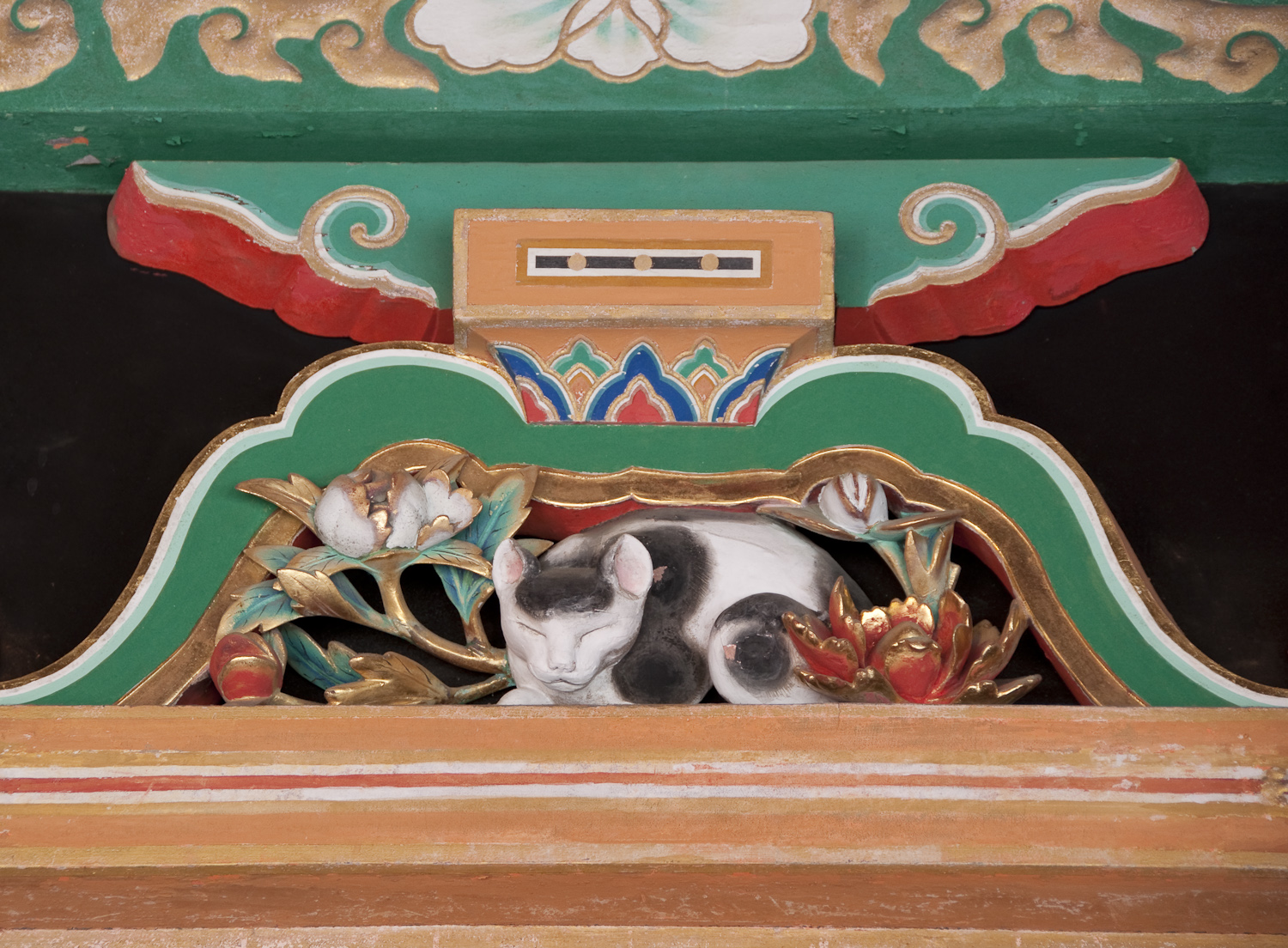 Sleeping cat, carving attributed to Hidari Jingoro, Toshogu, Nikko, Tochigi Prefecture, Japan, a UNESCO World Heritage Site.